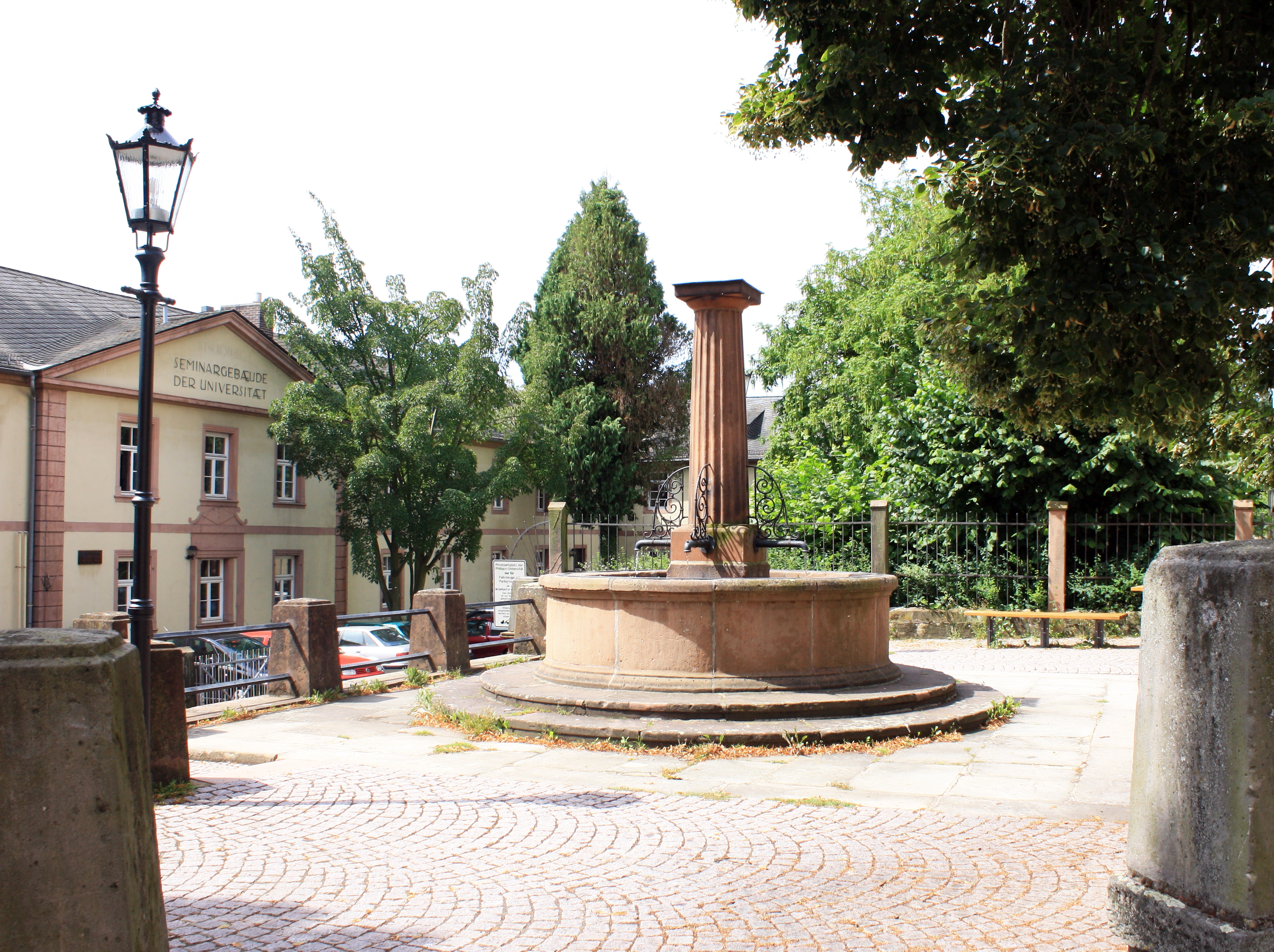 The Bering Fountain in Marburg